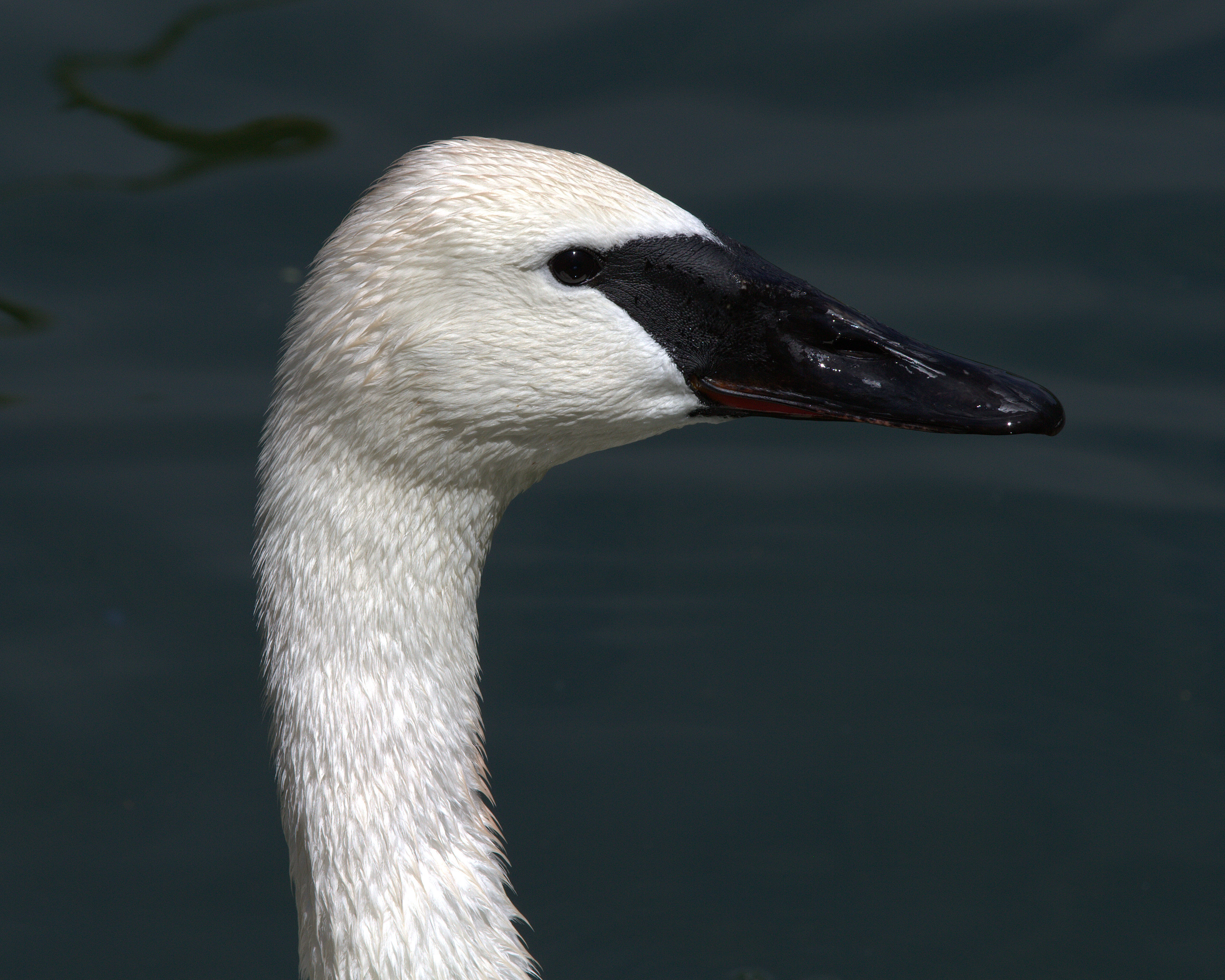 Cygnus buccinator - taken at Cincinnati zoo